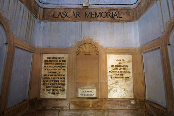 Inside